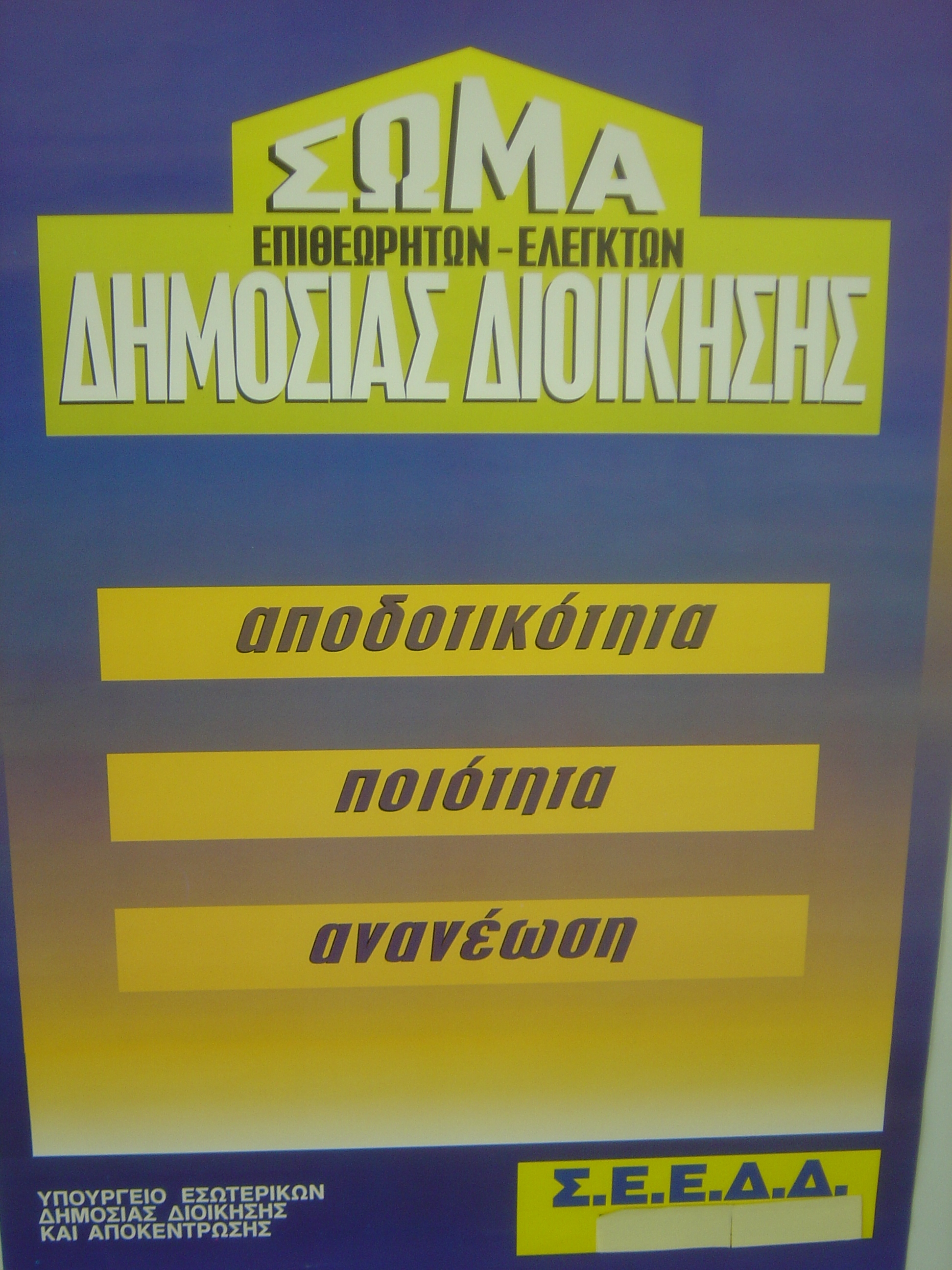 S.E.E.D.D. poster